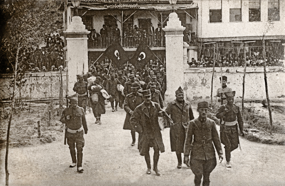 Greco-Turkish War 1919-1922 - General Kimon Digenis with his soldiers being led away by Turkish soldiers following the capture after the Greek surrender to the Turkish Cavalry at Karaja Hisar in August 1922. This picture shows the General being led into the Ala Sehir (Alaşehir) (Chehir) Prison. He was released during an exchange of prisoners in 1923.